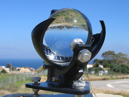 Image of a heliograph, instrument used in meteorology to measure the amount of hours of sunshine in a day.